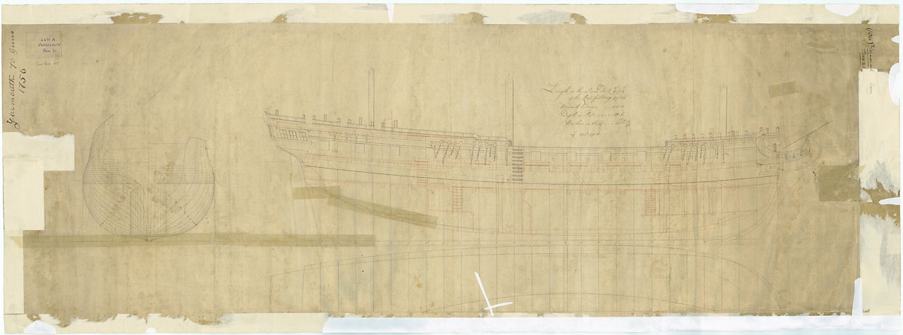 'Yarmouth' (1745); 'Guadeloupe' (1763) Scale: 1:48. Plan showing the body plan, stern board outline, sheer lines with inboard detail, and longitudinal half-breadth for 'Yarmouth' (1745), a modified 1741 Establishment 70-gun Third Rate, two-decker. The forward lines on the body plan and half-breadth have been altered at an unknown date. It is unclear whether these were proposed or acted upon. Reverse: scale: 1:48 and dated 29 April 1756, showing the body plan, inboard profile, and longitudinal half-breadth (no waterlines) for 'Guadeloupe' (1763), a 28-gun Sixth Rate Frigate. YARMOUTH 1748